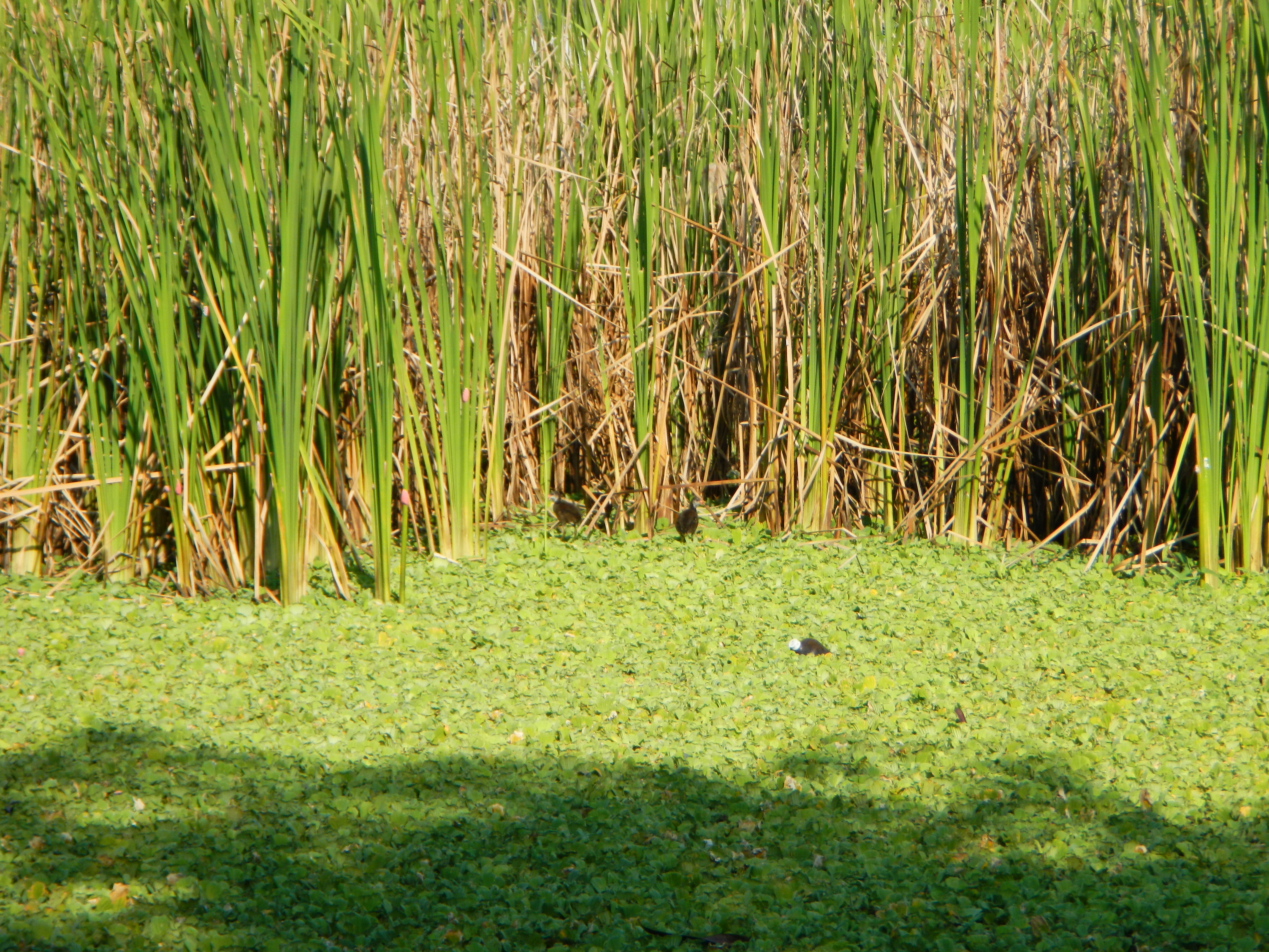 Kiapo / Quiapo / Pistia stratiotes / Water cabbage: Philippine water cabbage, water lettuce, Nile cabbage, or shellflower[1] with Tikling at Paombong, Bulacan[2]